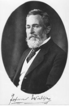 Johannes Walther (1860-1937), German geologist (sedimentologist)